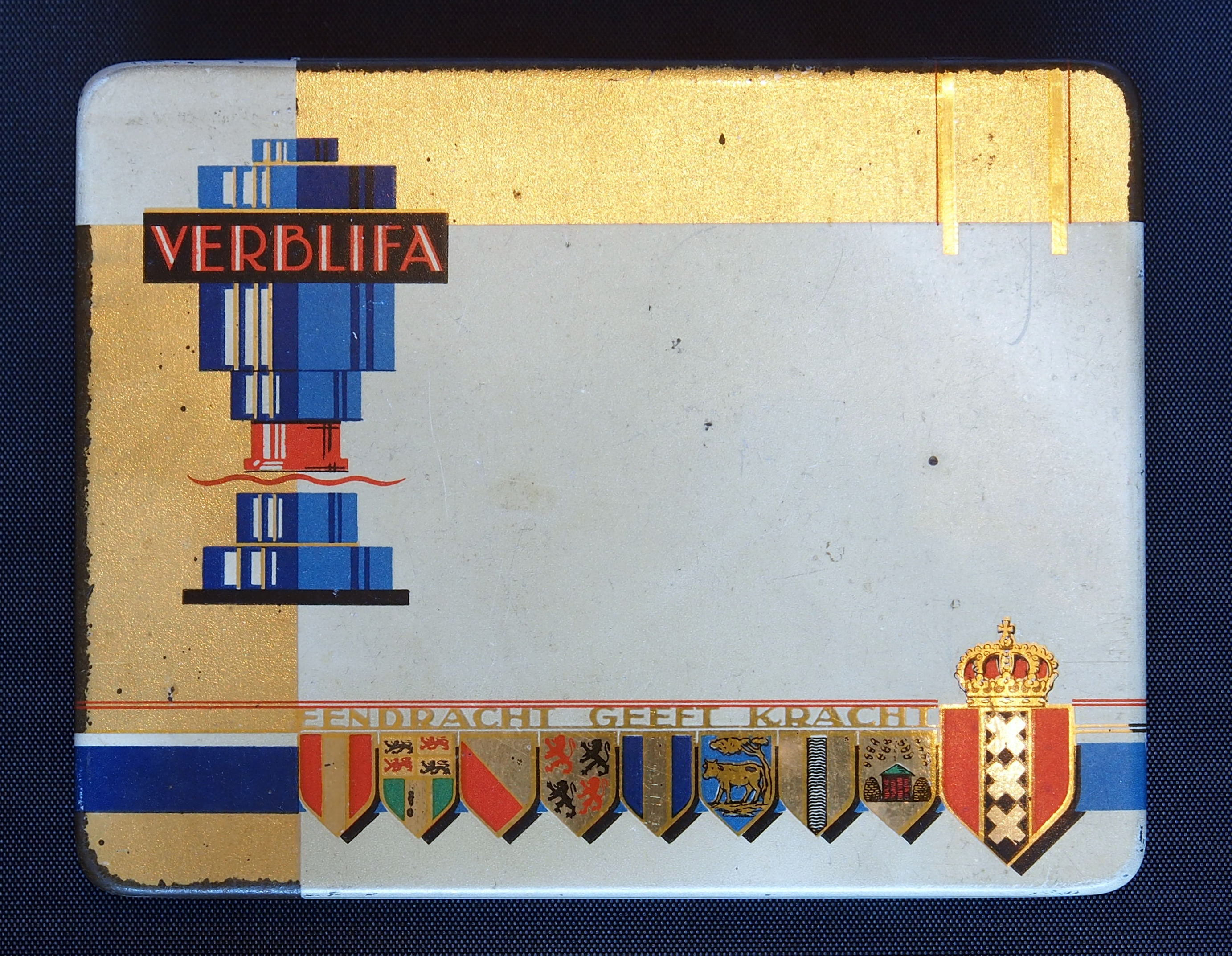 Photographed at a collector of Droste. For info see tincollectors.nl or